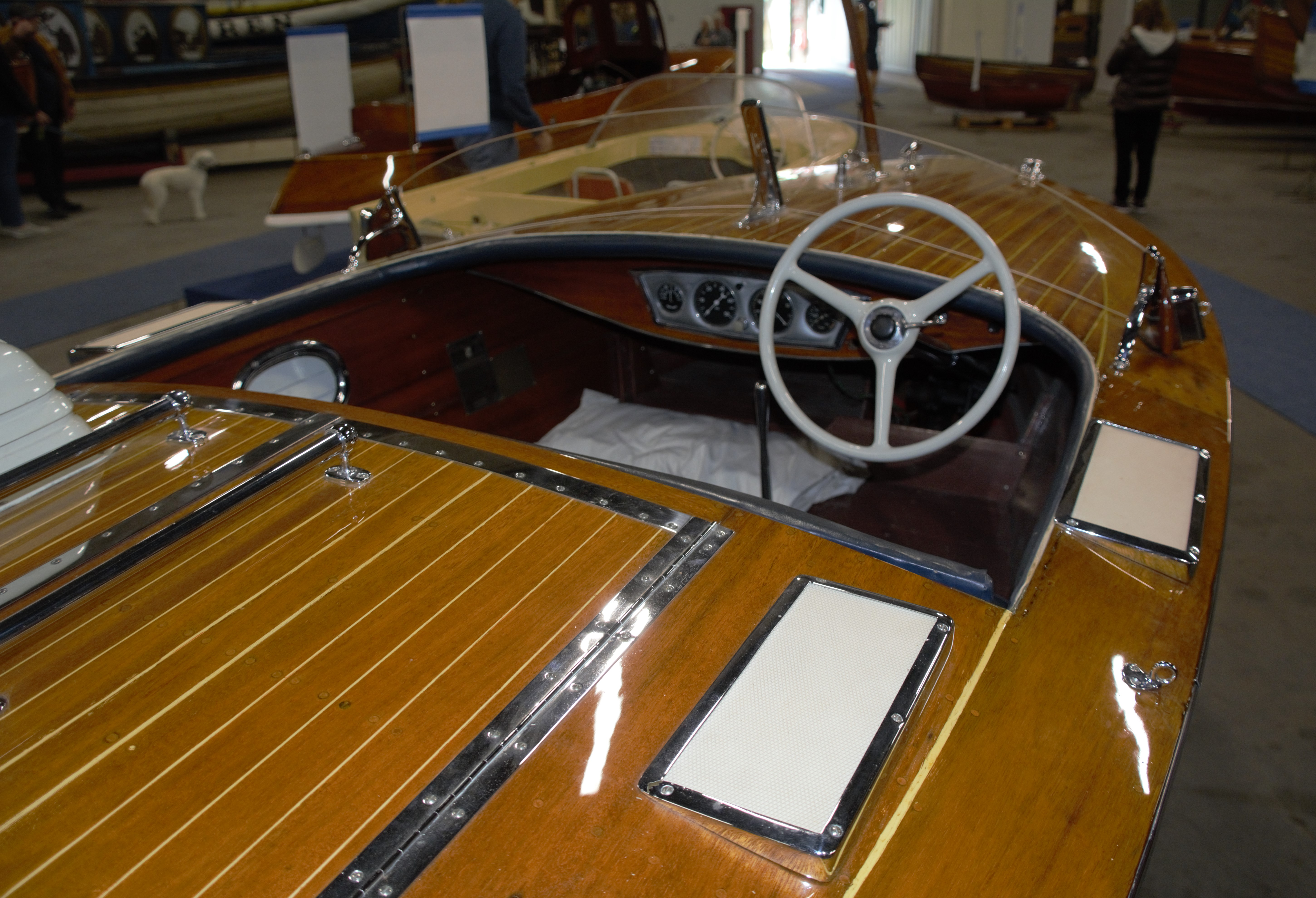 Chris-Craft built 1938. Sjöhistoriska museet, Båtmagasinet på Rindö.